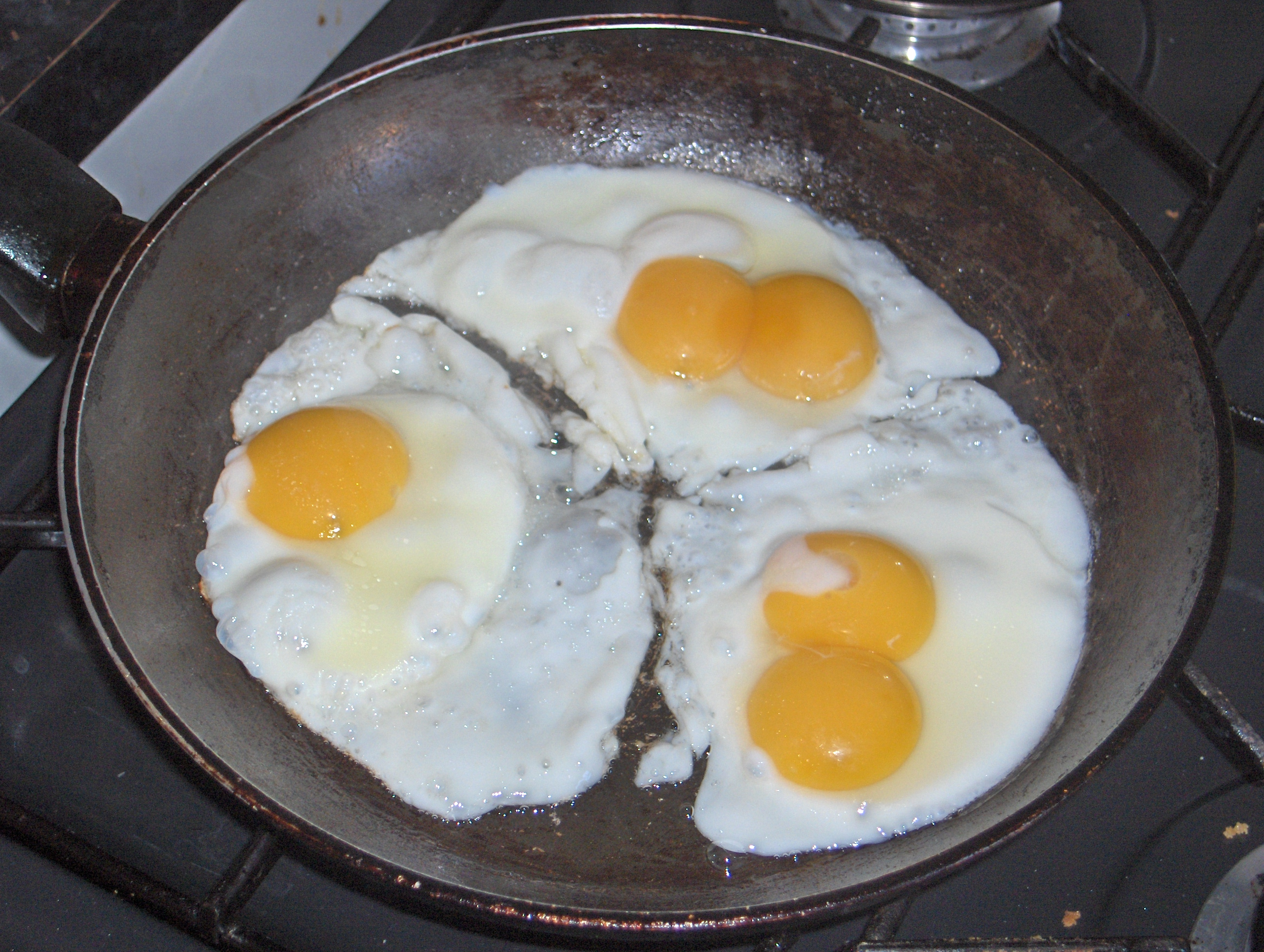 Five eggs frying. Taken by me on the 2nd of September 2005 using a HP Photosmart R707 at 5.1 megapixels.